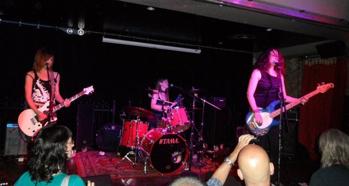 The Wanton Looks performing at the Cobra Lounge in Chicago.